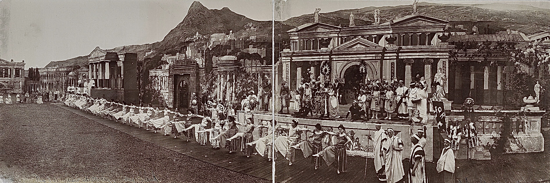 Two-part panoramic photograph of production of Henry J. Pain’s Fireworks Company at Manhattan Beach in Brooklyn, New York, c. 1903. Featured in image are the elaborate sets and costuming the company used to portray and simulate for audiences on summer nights the volcanic eruption of Mount Vesuvius in Italy in 79 AD and its destruction of the Roman town of Pompeii. These sets were used by Kalem Company (a motion picture studio) to film the 1907 short Ben Hur.